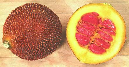 Exterior and cross-sectional interior of gac